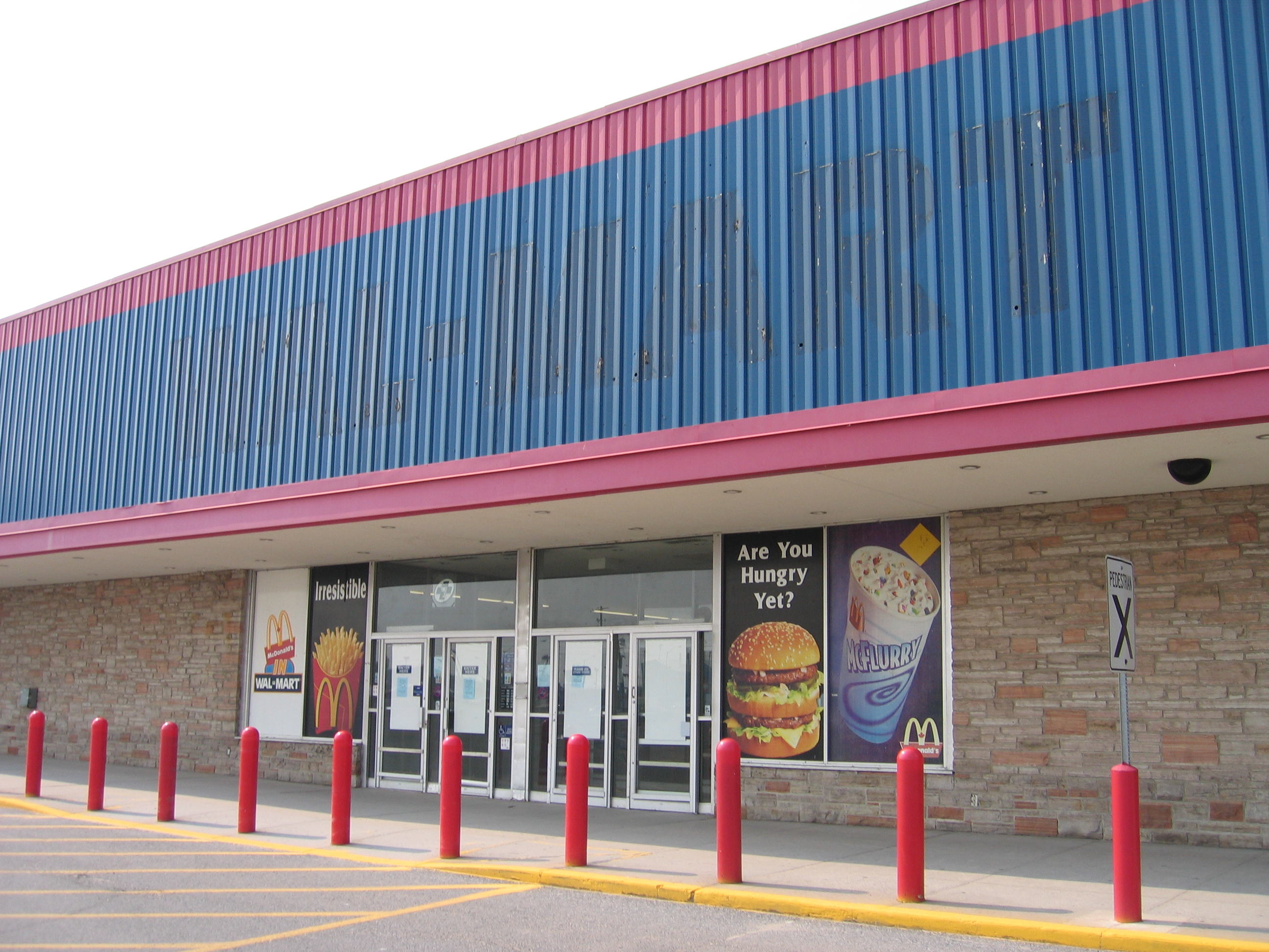 Exterior of abandoned Kingston, Ontario Wal-Mart store.